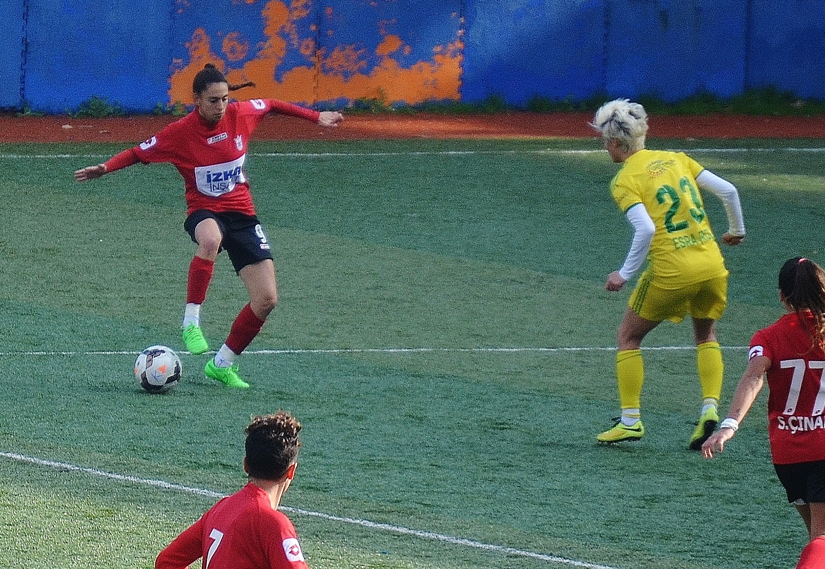 Ceren Nurlu (left) of Konak Belediyespor against Esra Erol (right) of Kireçburnu Spor in the 2015-16 season